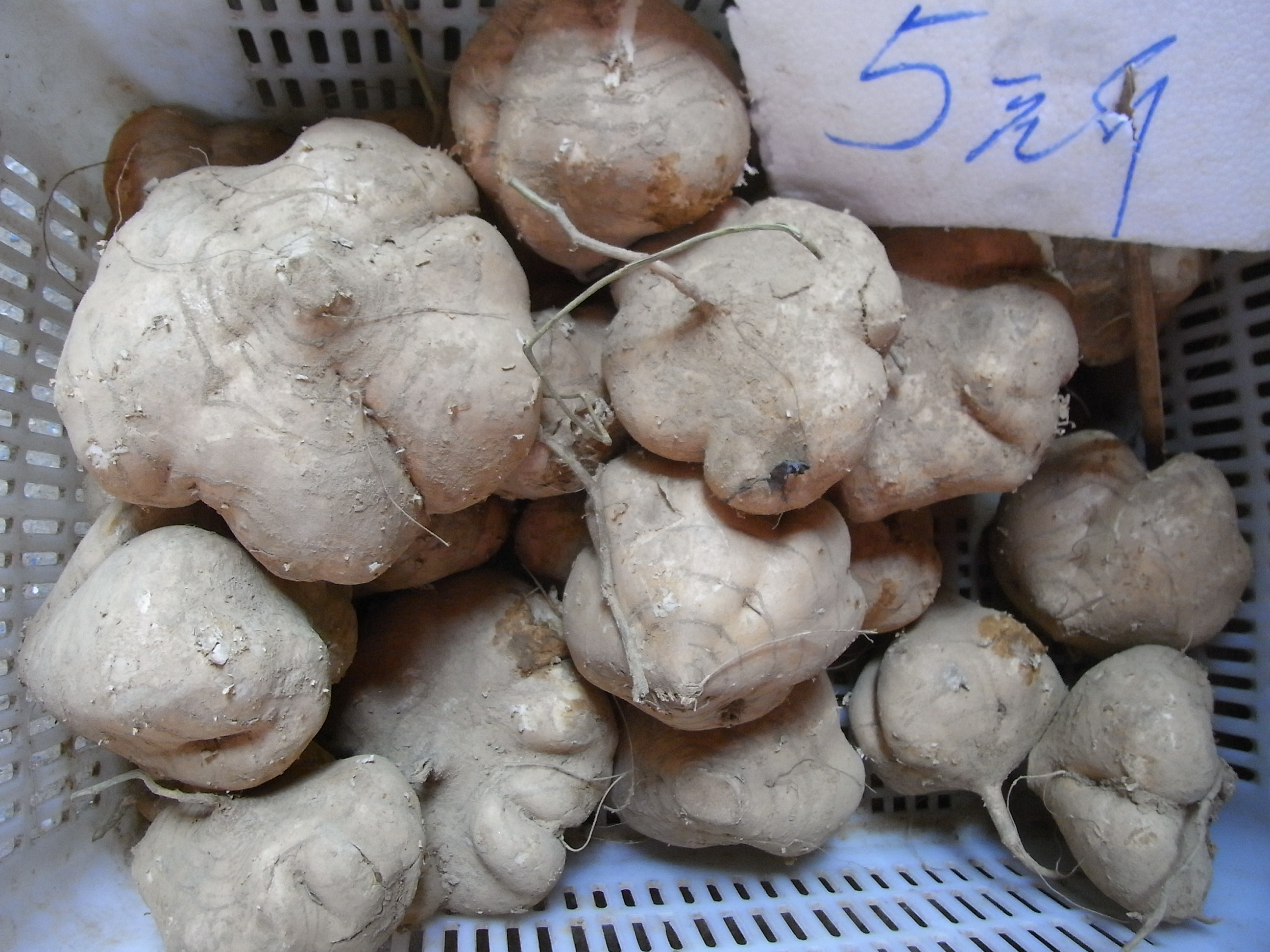 好上好膳康菓菜雜貨公司